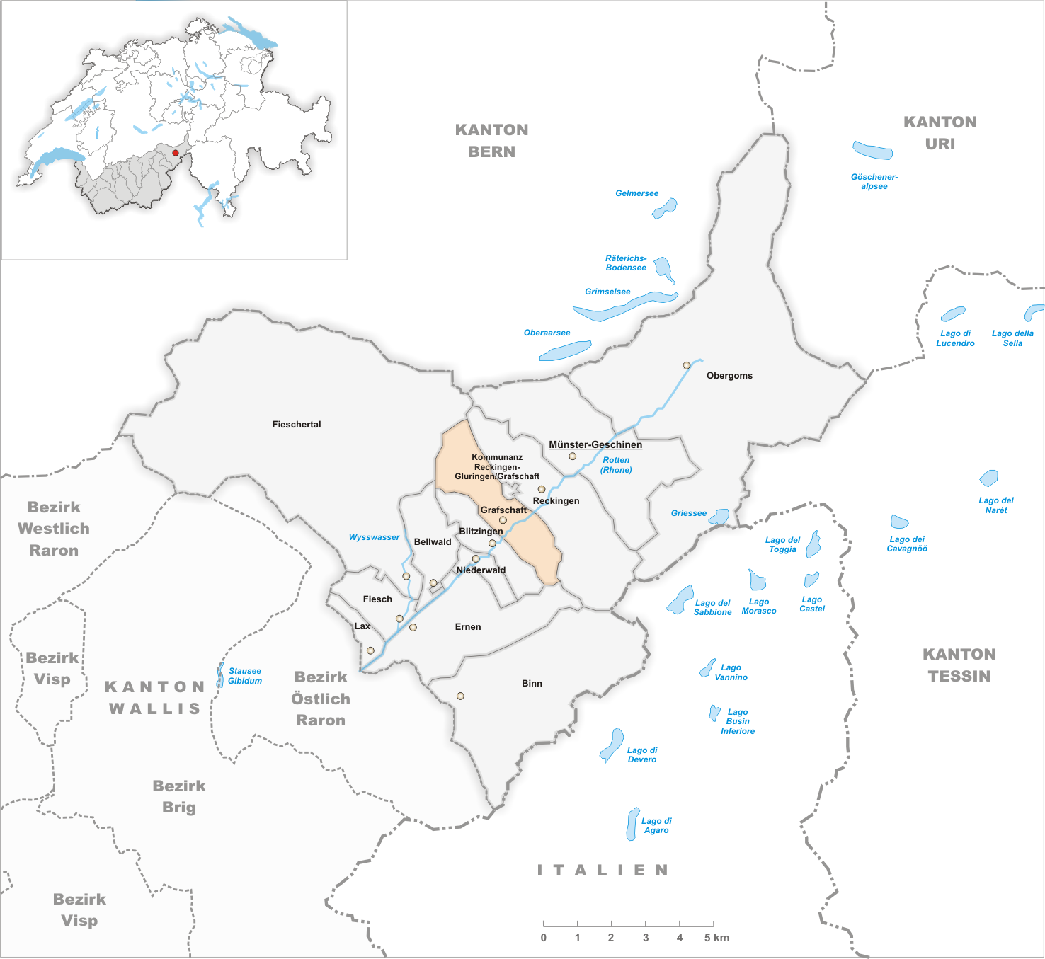 Municipality Grafschaft